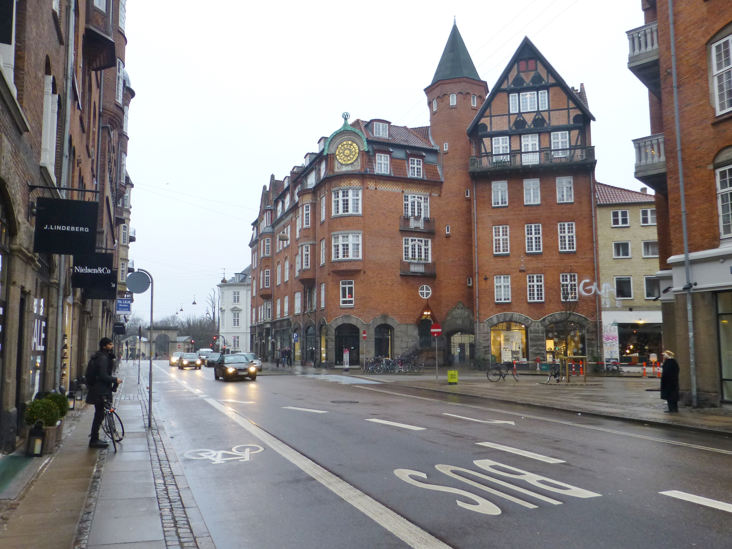 The street Christian IX's Gade in Indre By in Copenhagen.